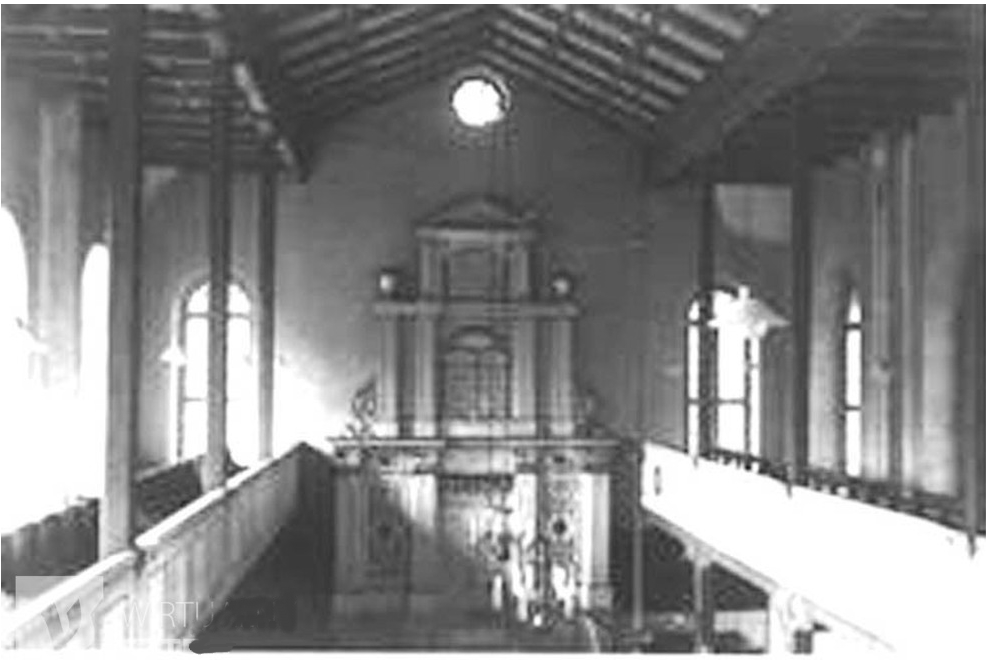 Inside of the synagogue of Sagan (now Żagań), built in 1857 from a bastion, and destroyed by the nazis during Krictal nacht (9 to 10 nov 1938)